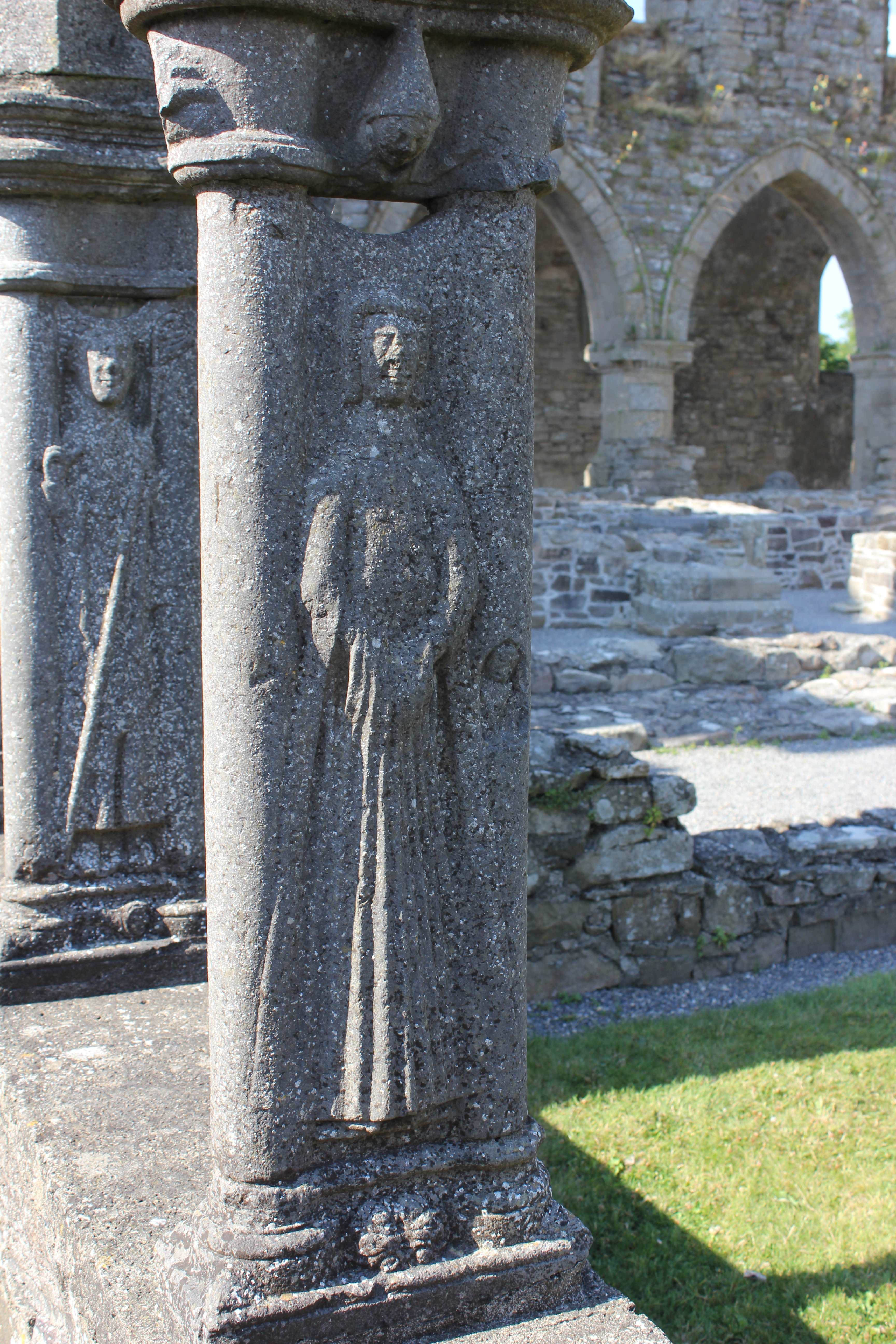 Jerpoint Abbey